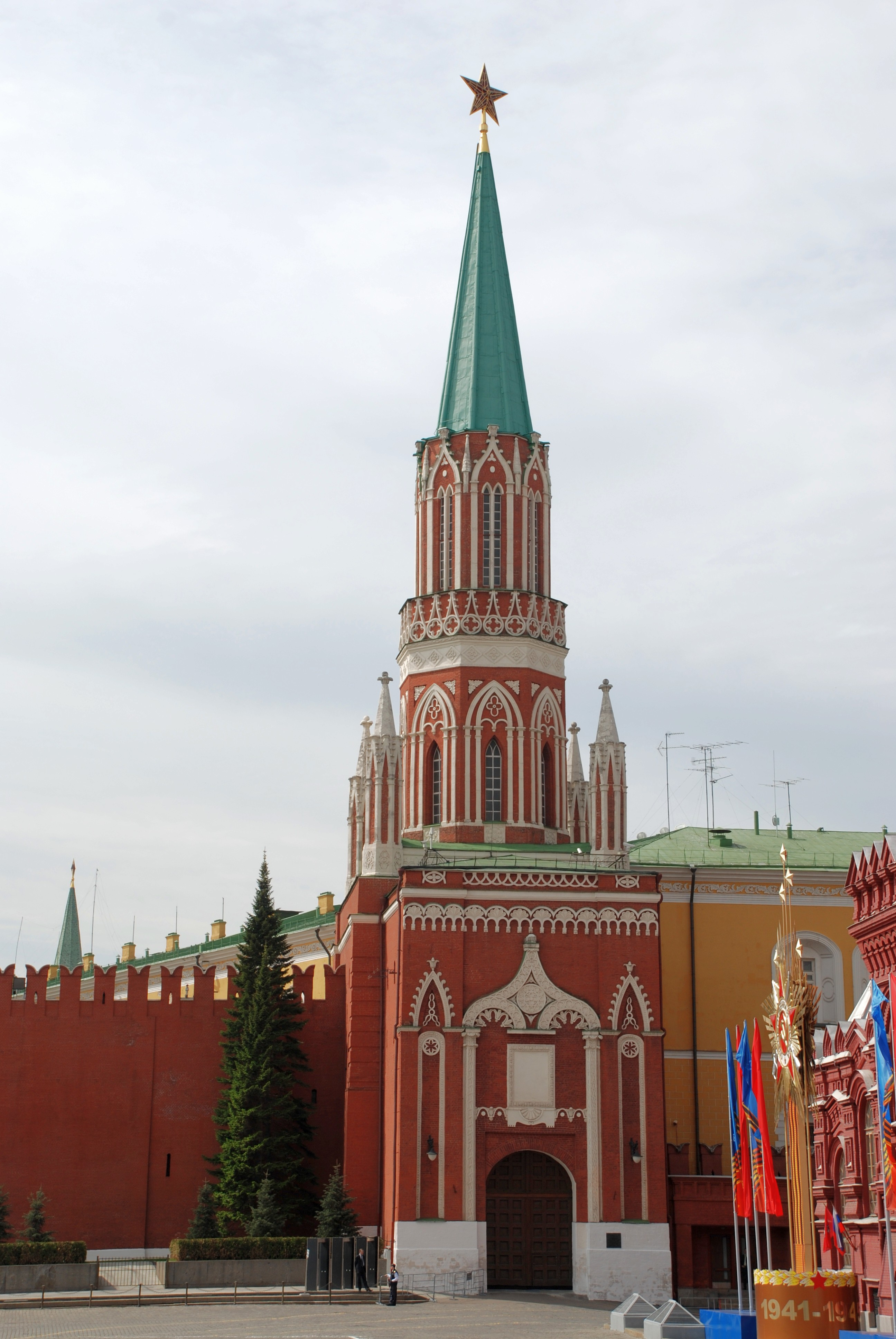 Nikolskaya Tower is one of the Moscow Kremlin towers.